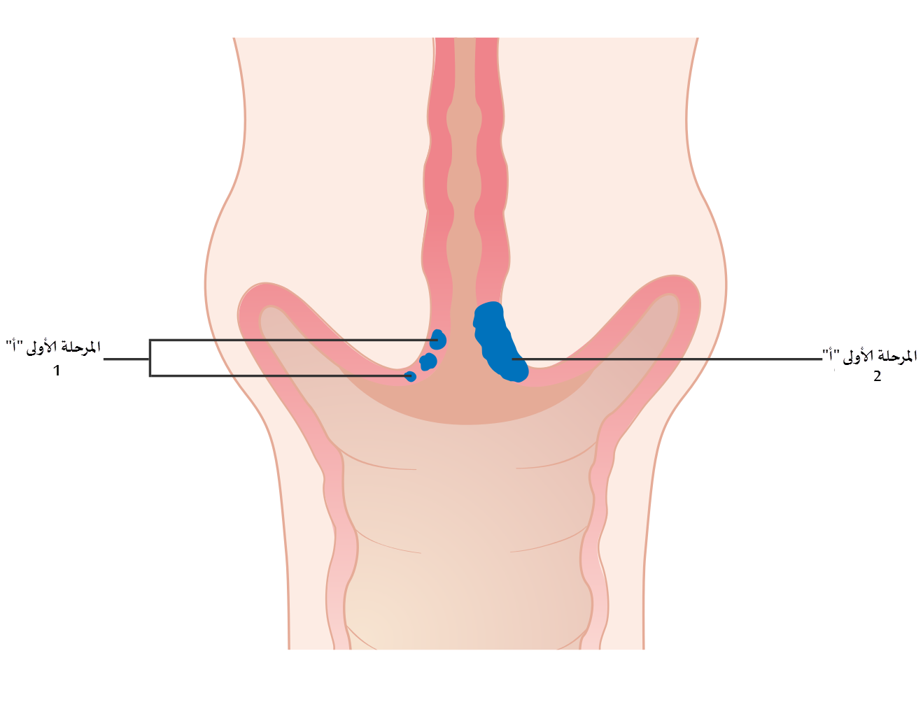 Diagram showing stage 1A cervical cancer.